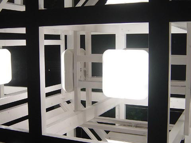 Microlightsculpture 02 - Hommage to Inger Christensen, 2002 (Light Artist: Ruairí O'Brien)